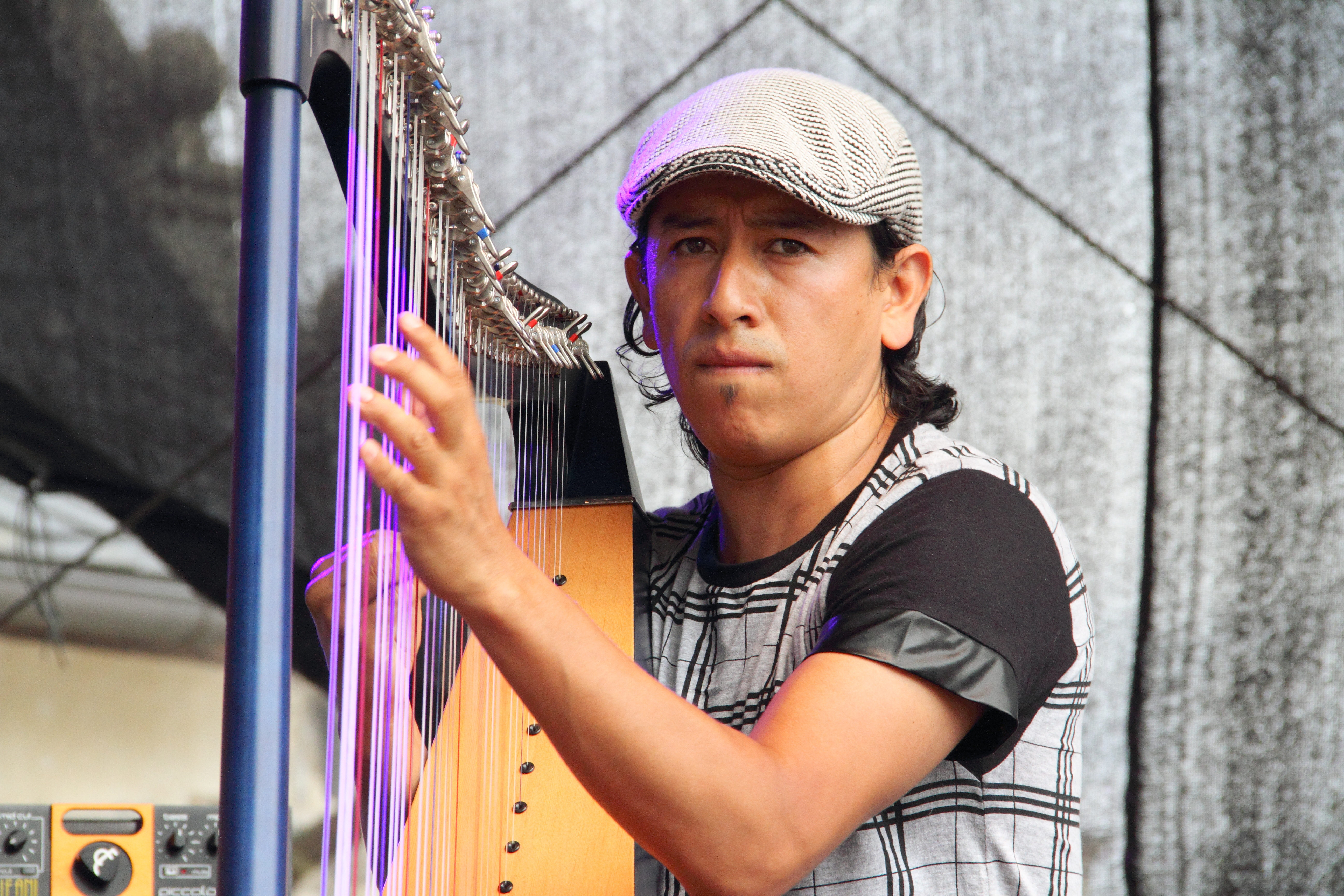 Edmar Castañeda at Rudolstadt-Festival 2016.